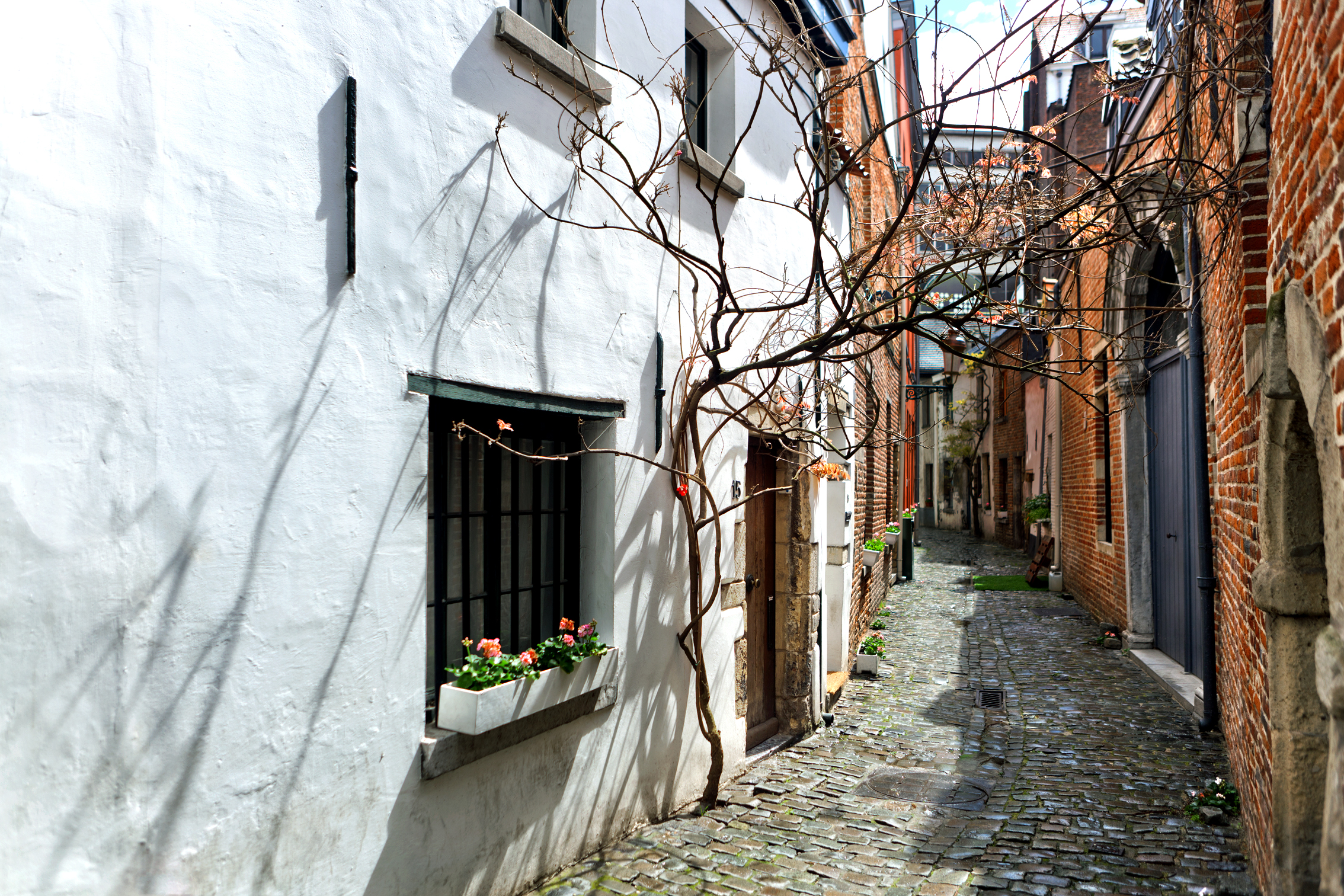 Brussels - Rue de la Cigogne/Ooievaarsstraatje